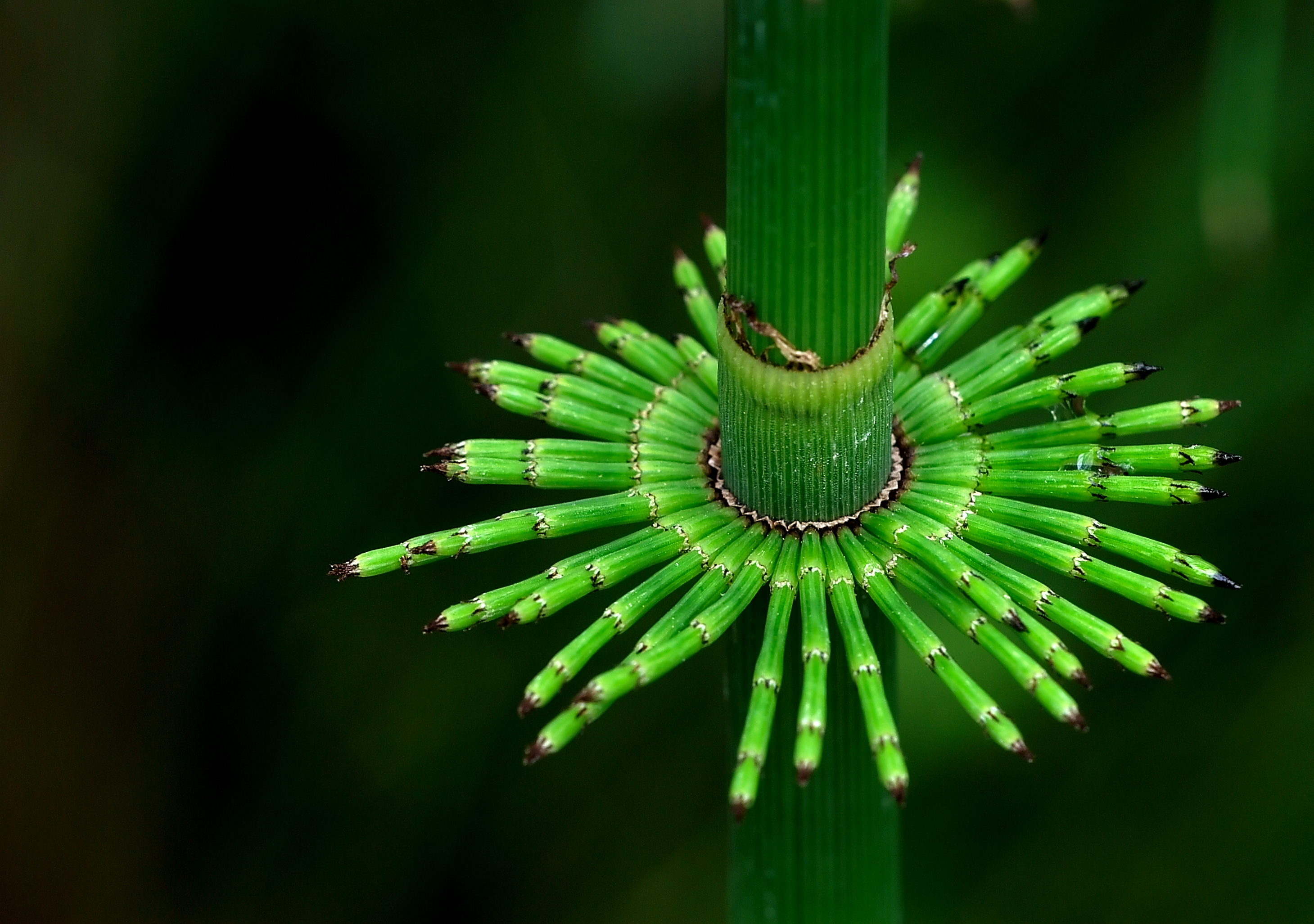 Equisetum telmateia in the Belgian botanical garden of Meise